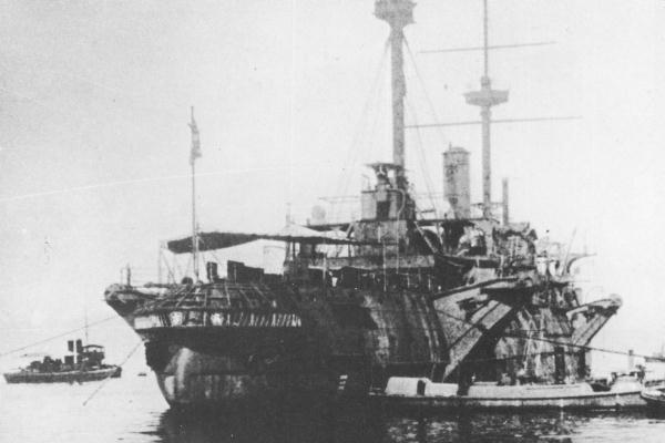 Photo of Japanese repair ship ASAHI, which was refitted as a repair ship for submarines from a battleship in 1925.